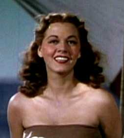 Screenshot of Maria Montez from the trailer of the film Cobra Woman